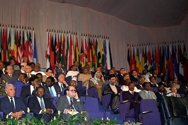 President Ali Khamenei in Eighth Summit of the Non-Aligned Movement